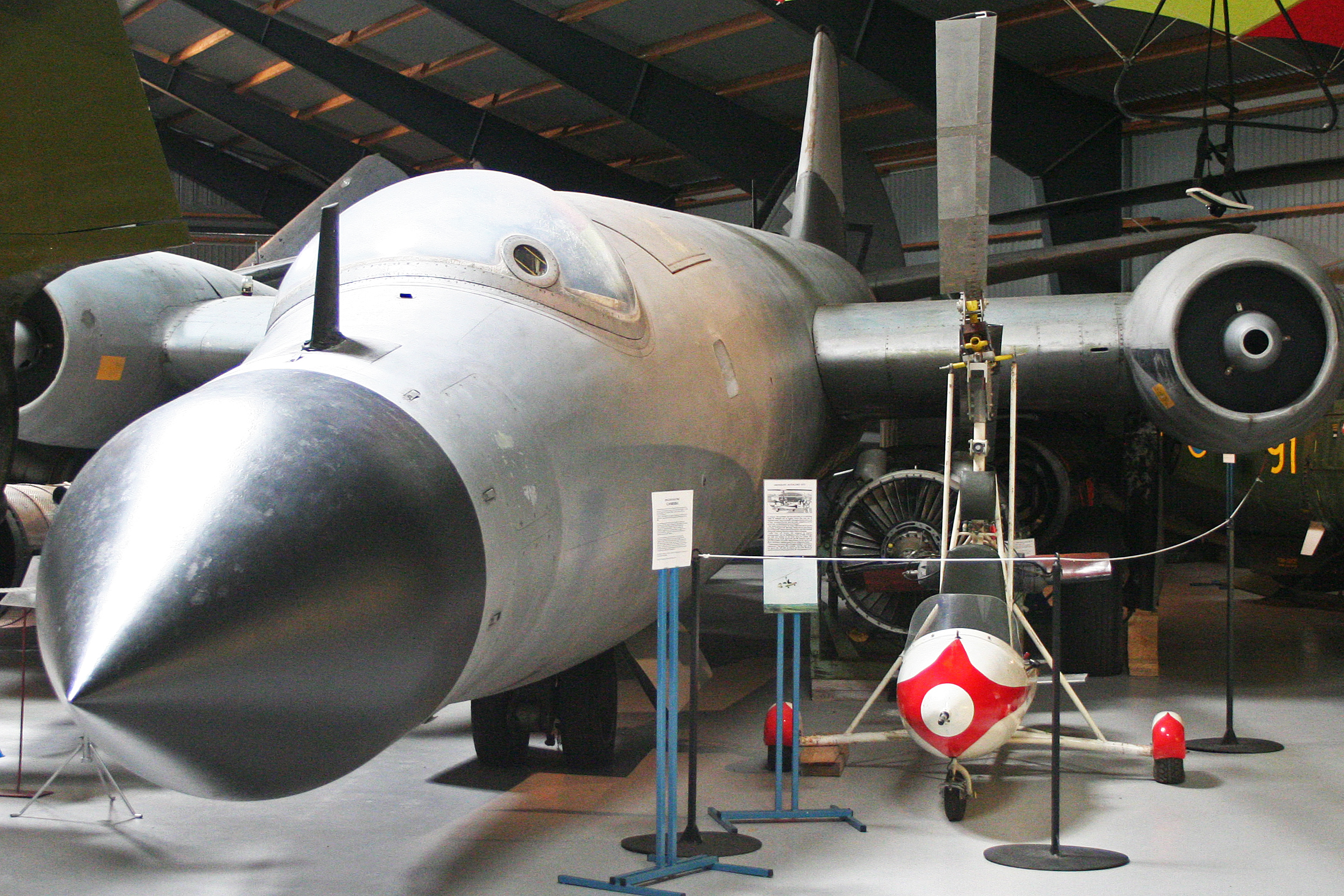 Built Canberra B2 for the RAF as WH711. Later converted by Boulton-Paul for Swedish Air Force ELINT work, it was given a T11 style nose cone. The type was eventually replaced in service by the Caravelle. msn 71180. Svedinos Museum, Ugglarp. 02-6-2012